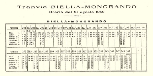 Biella-Mongrando 1950 timetable